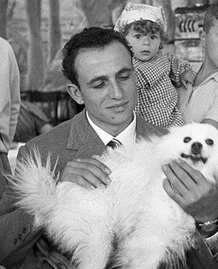 Italian racing cyclist Ercole Baldini caressing a dog before visiting the sanctuary of the Madonna del Ghisallo, the cyclists' patron saint. Colle del Ghisallo, September 1956